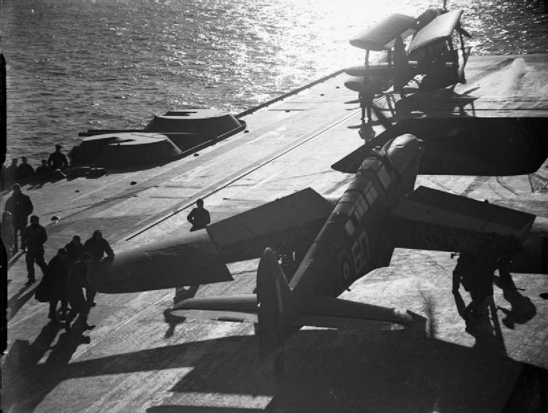 The Royal Navy during the Second World War A Fairey Fulmar with its wings folded being silhouetted by the early morning sun on the flight deck of HMS VICTORIOUS whilst the aircraft is being ranged and warmed up prior to take off for flying exercises out of Scapa Flow. A Fairey Albacore, again with its wings folded can be seen at the far end of the deck.